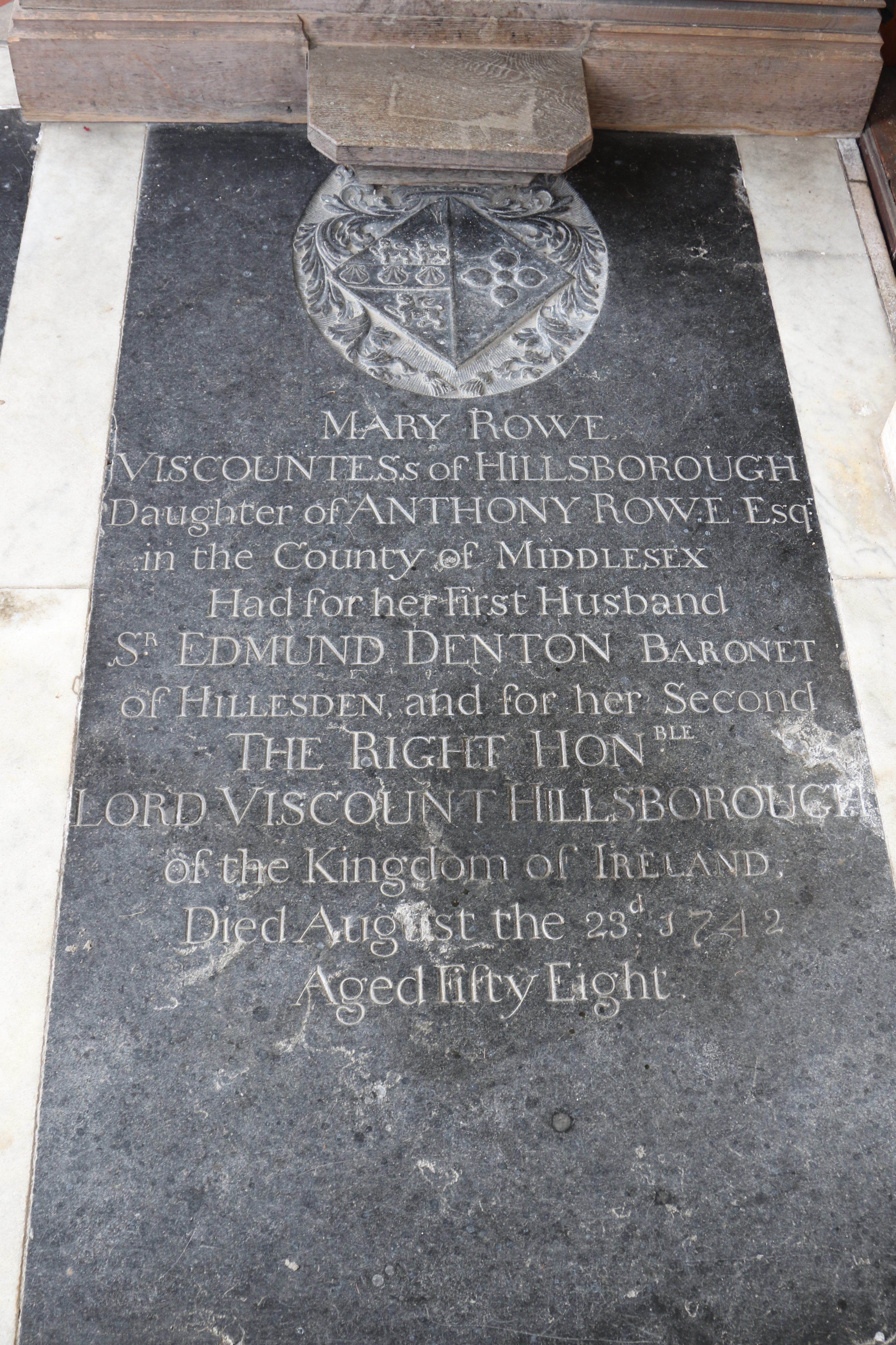 Mary Rowe, Viscountess of Hillsborough Daughter of Anthony Rowe Esq in the County of Middlesex Had for her first husband Sir Edmund Denton Baronet of Hillesden and for her second The Right Honble Lord Viscount Hillsborough of the Kingdom of Ireland Died August the 23d 1742, aged fifty eight